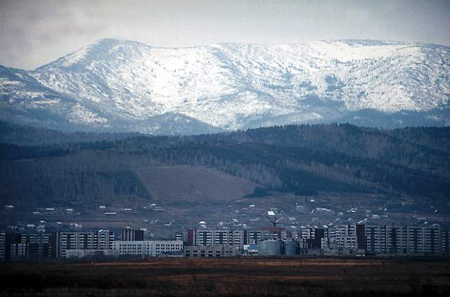 General seen from Sayanogorsk